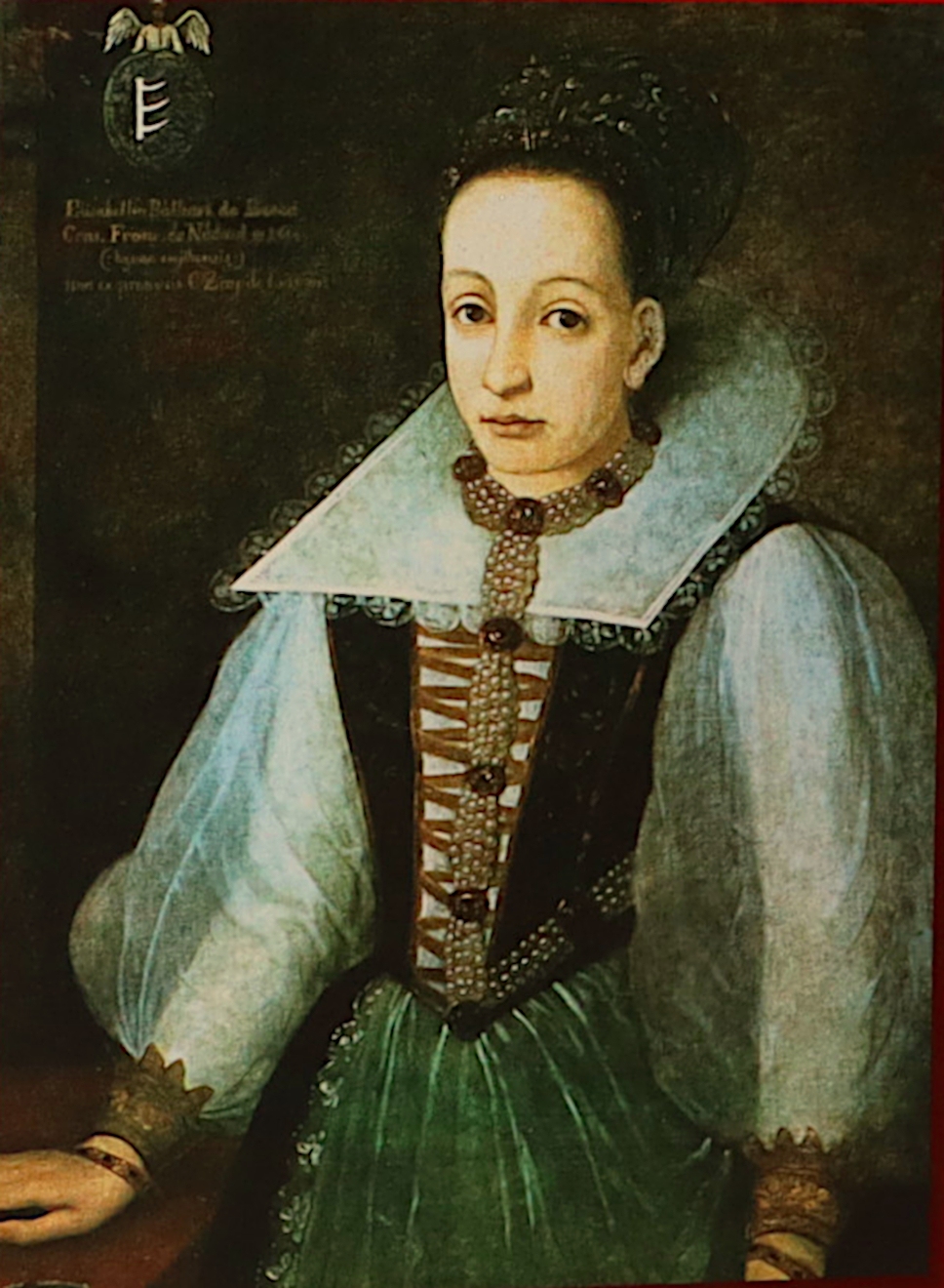 Portrait of Elizabeth Báthory (1560-1614)